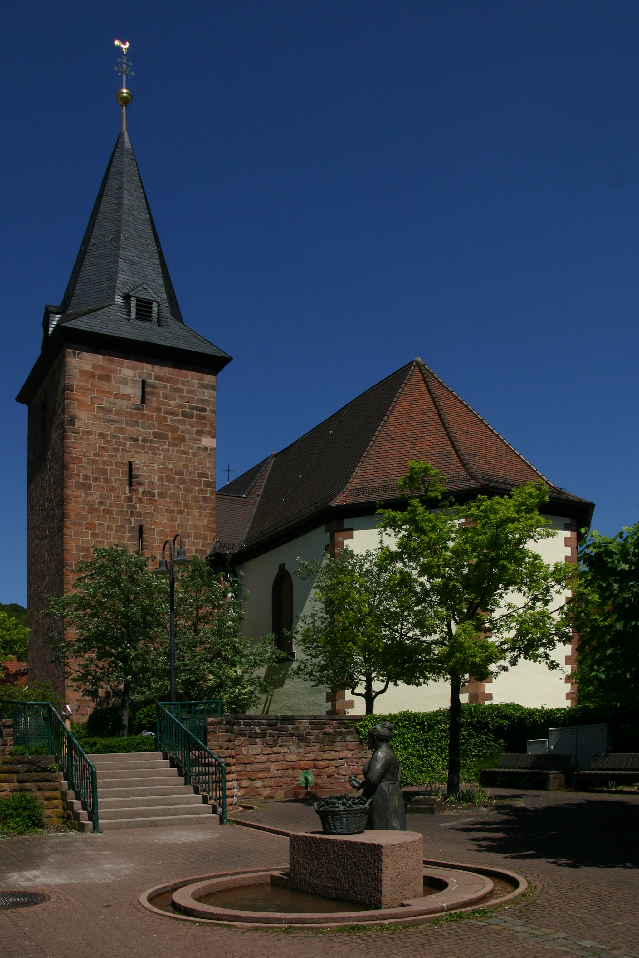 St. Mary's Church in Rodalben, Rhineland-Palatinate, Germany